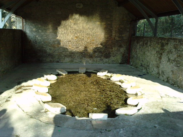 Wash-house in Rives (74 200 Thonon, France) lit in by the March afternoon slanting sun. Polished stone slabs line around the central pool, which reflects its light against the wall (note the date 1887 on a plaque), and the hall is cool and quiet, while it was a century ago ringing with bat thuds, washing songs and the loud chatter of gossips